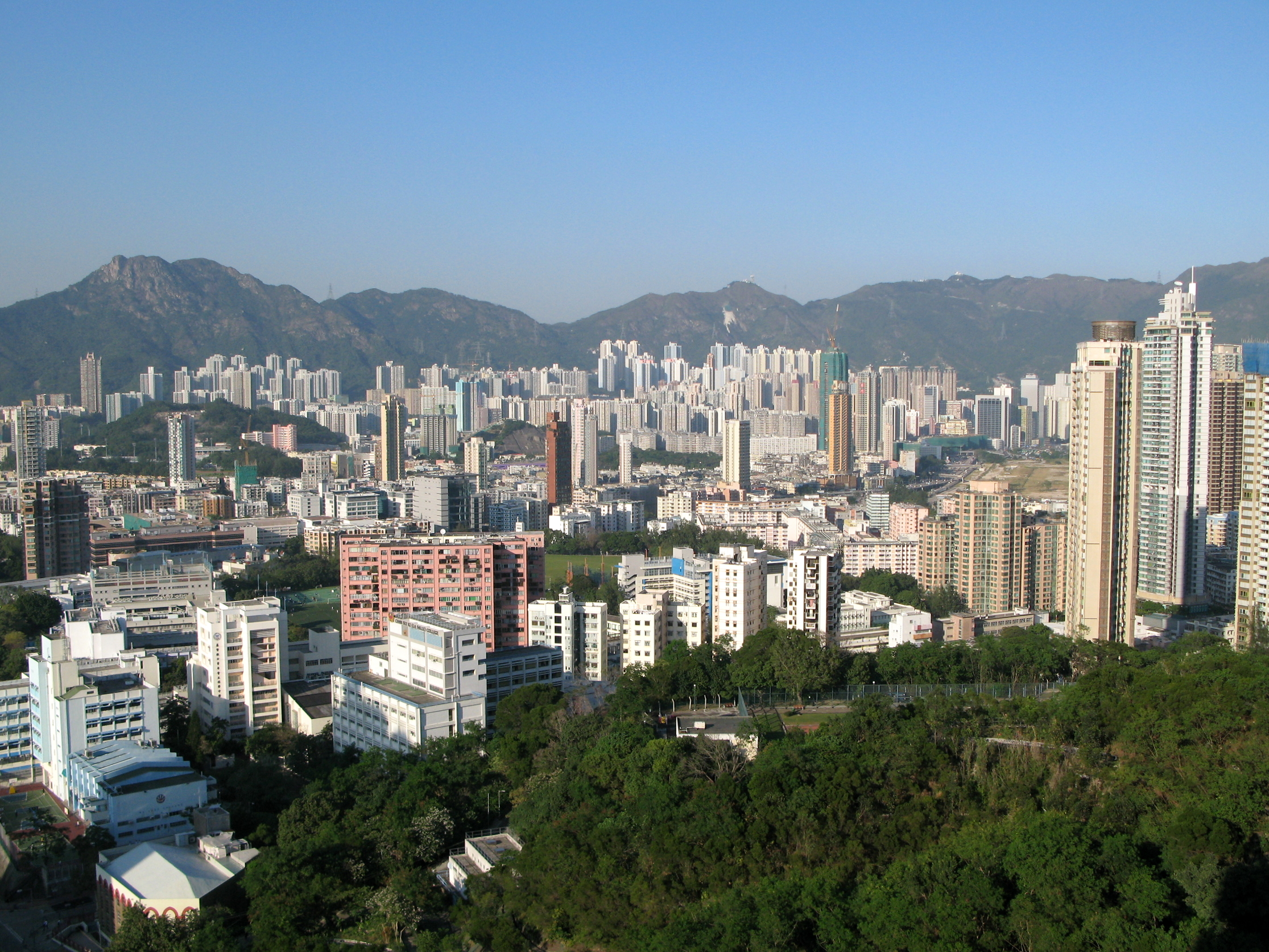 HK Kowloon City District 九龍城區